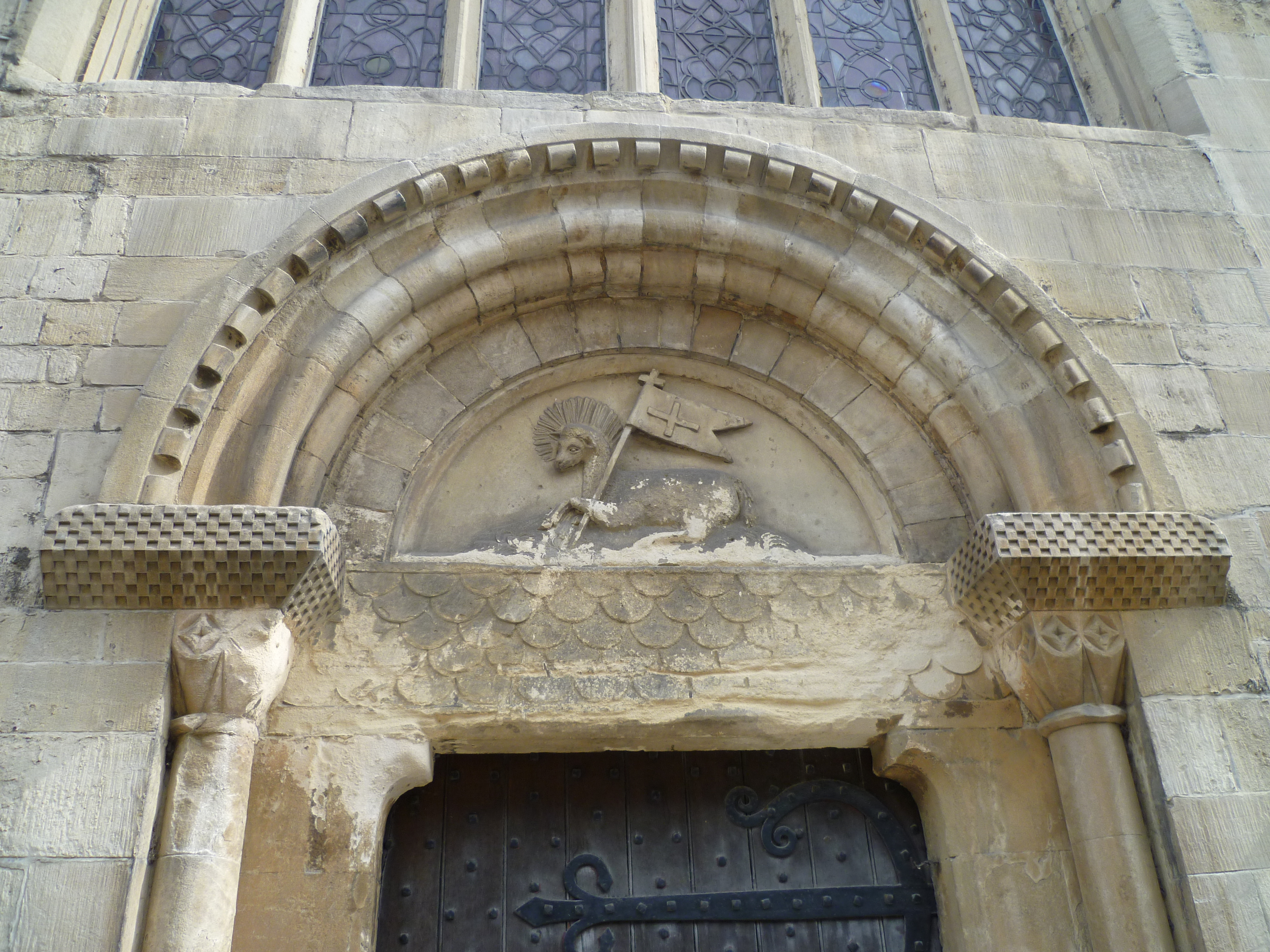 Tympanum over the west door of the parish church of St Mary de Crypt, Southgate Street, Gloucester, England